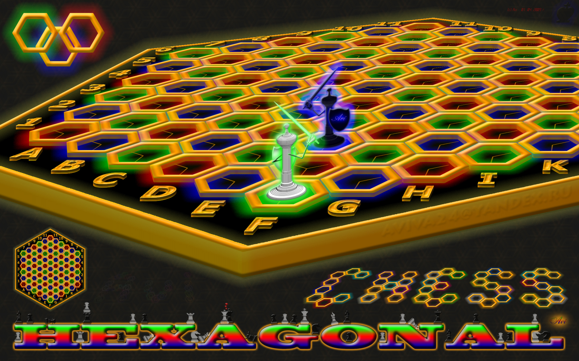 Photoshop works